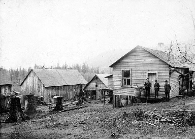 Grounds and buildings of the Equality Colony, a Skagit County, Washington, socialist colony.